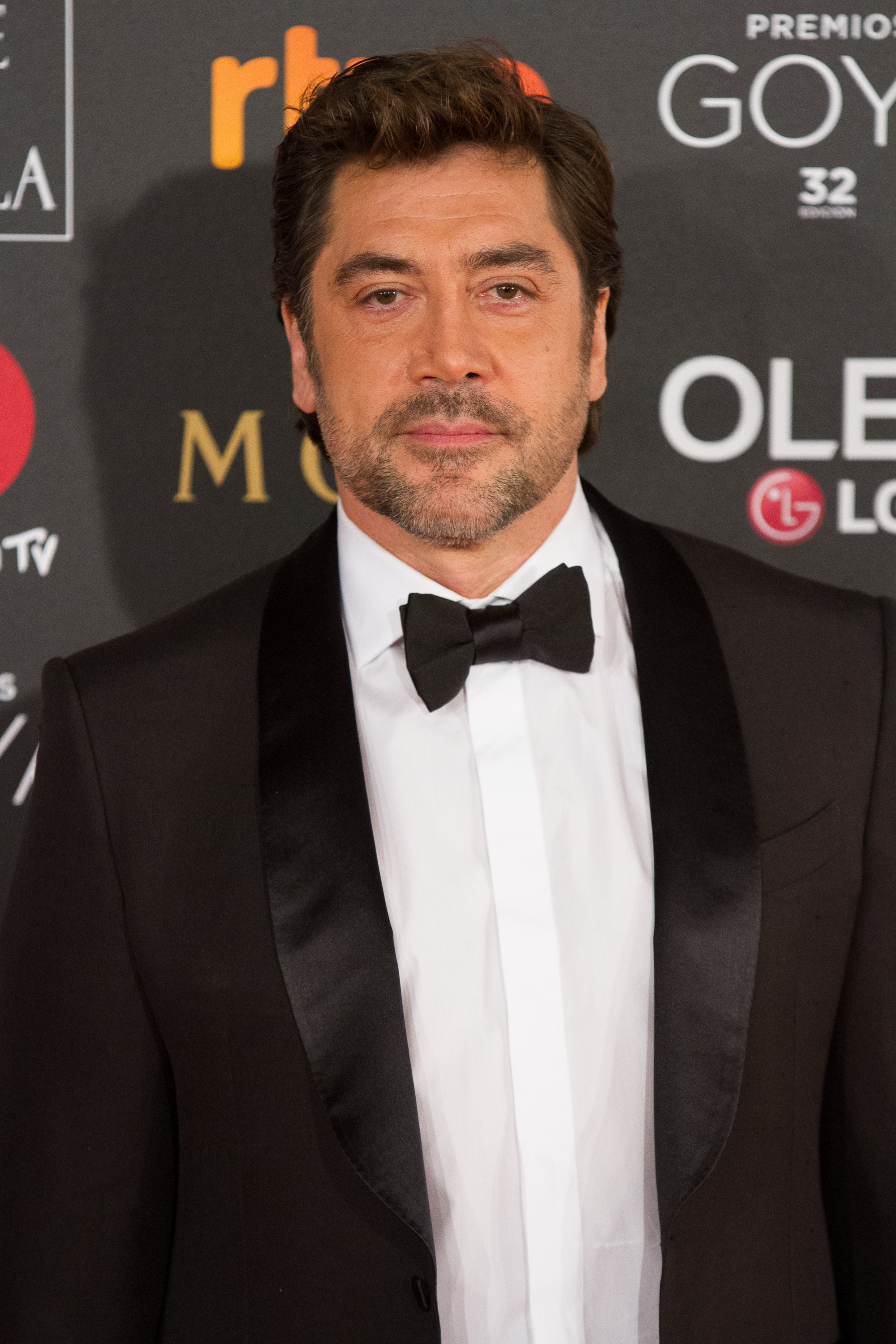 Javier Bardem at the 32nd Goya Awards, 2018.